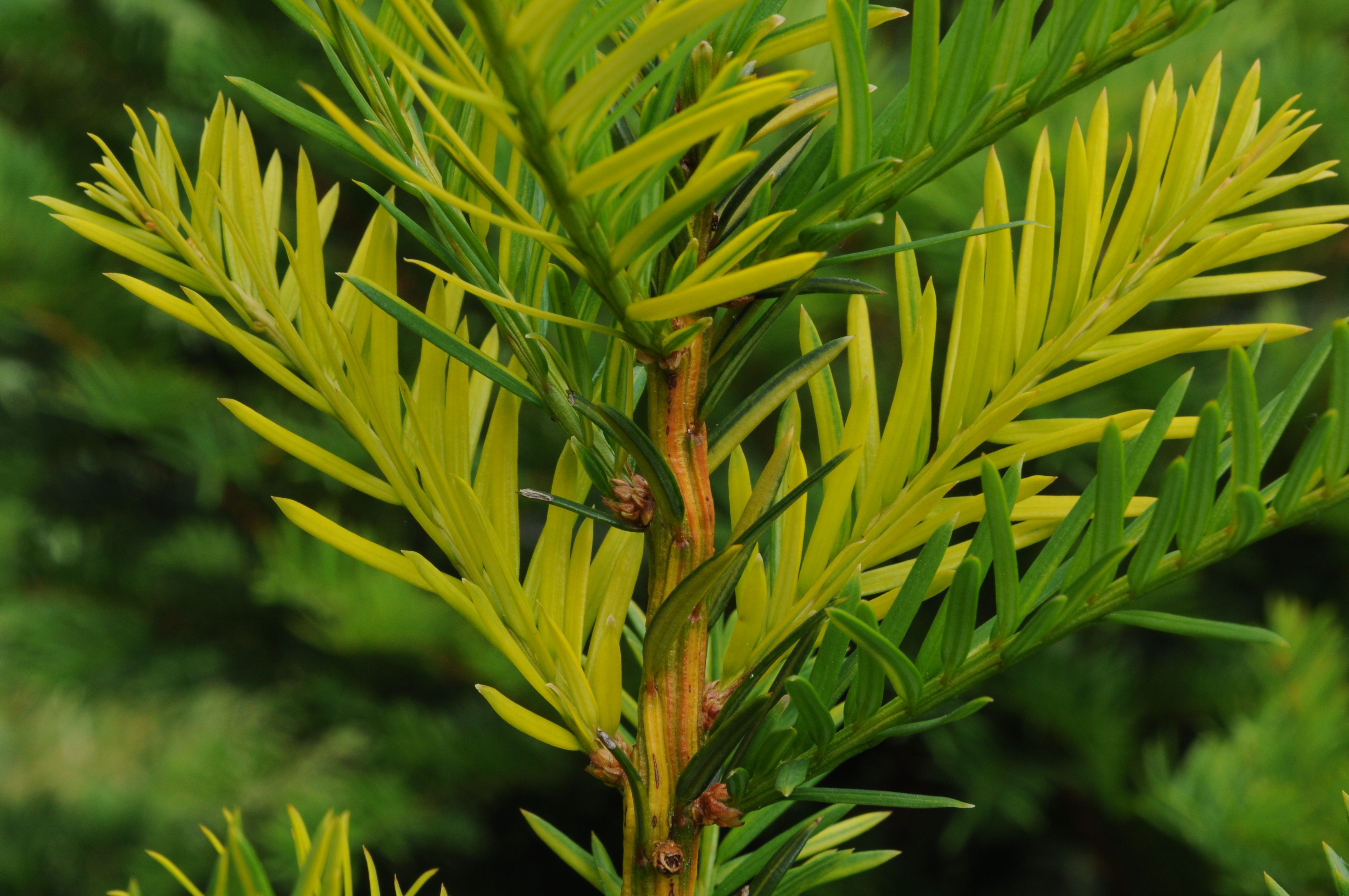 Taxus baccata mosaic, chimera